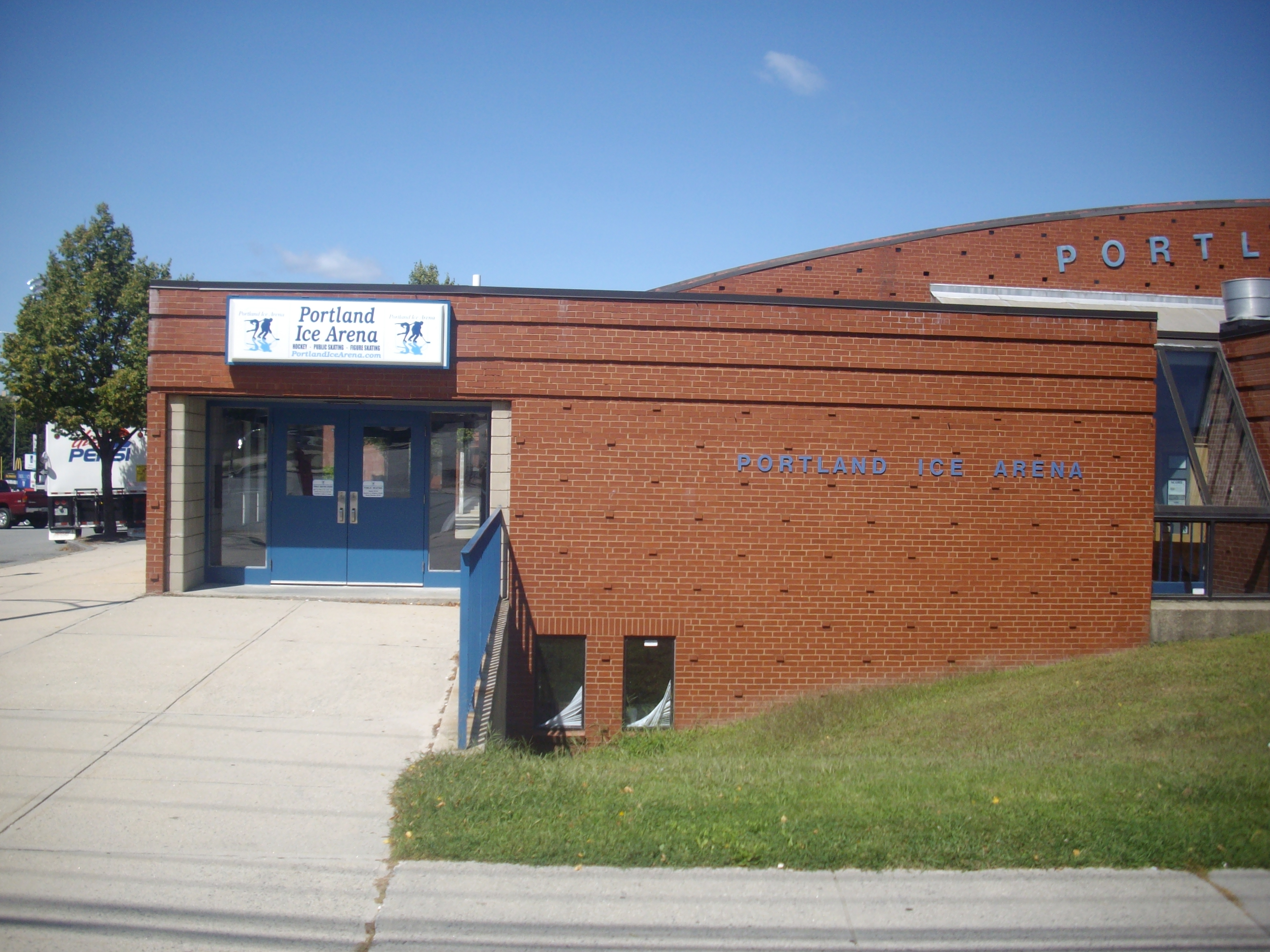 The Portland, Maine Ice Arena in August 2008